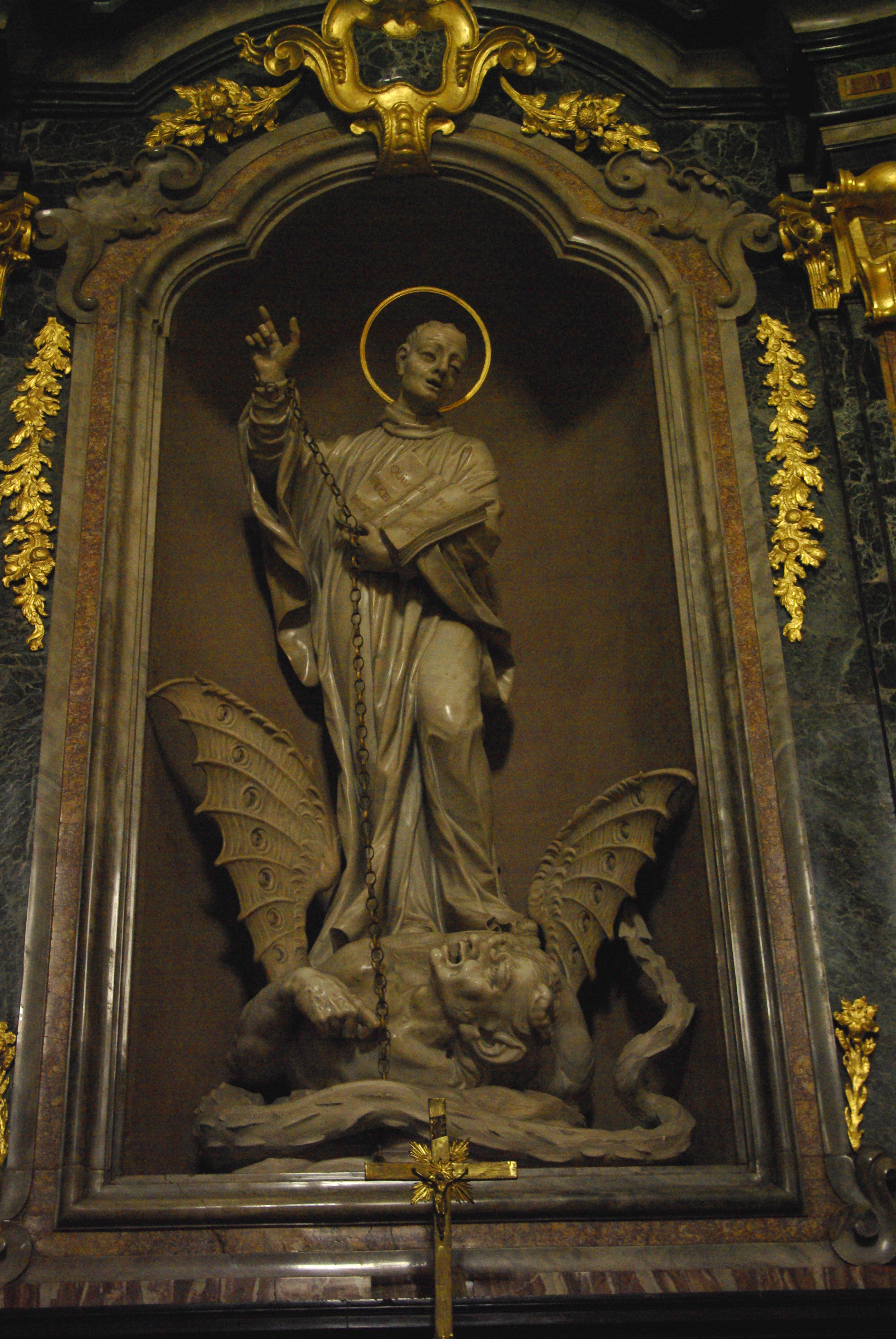 Sculpture of Bernard of Clairvaux, in the Church of St. Stephen (dedicated to St. Stephen the Protomartyr), the main church of Canzo (Italy)